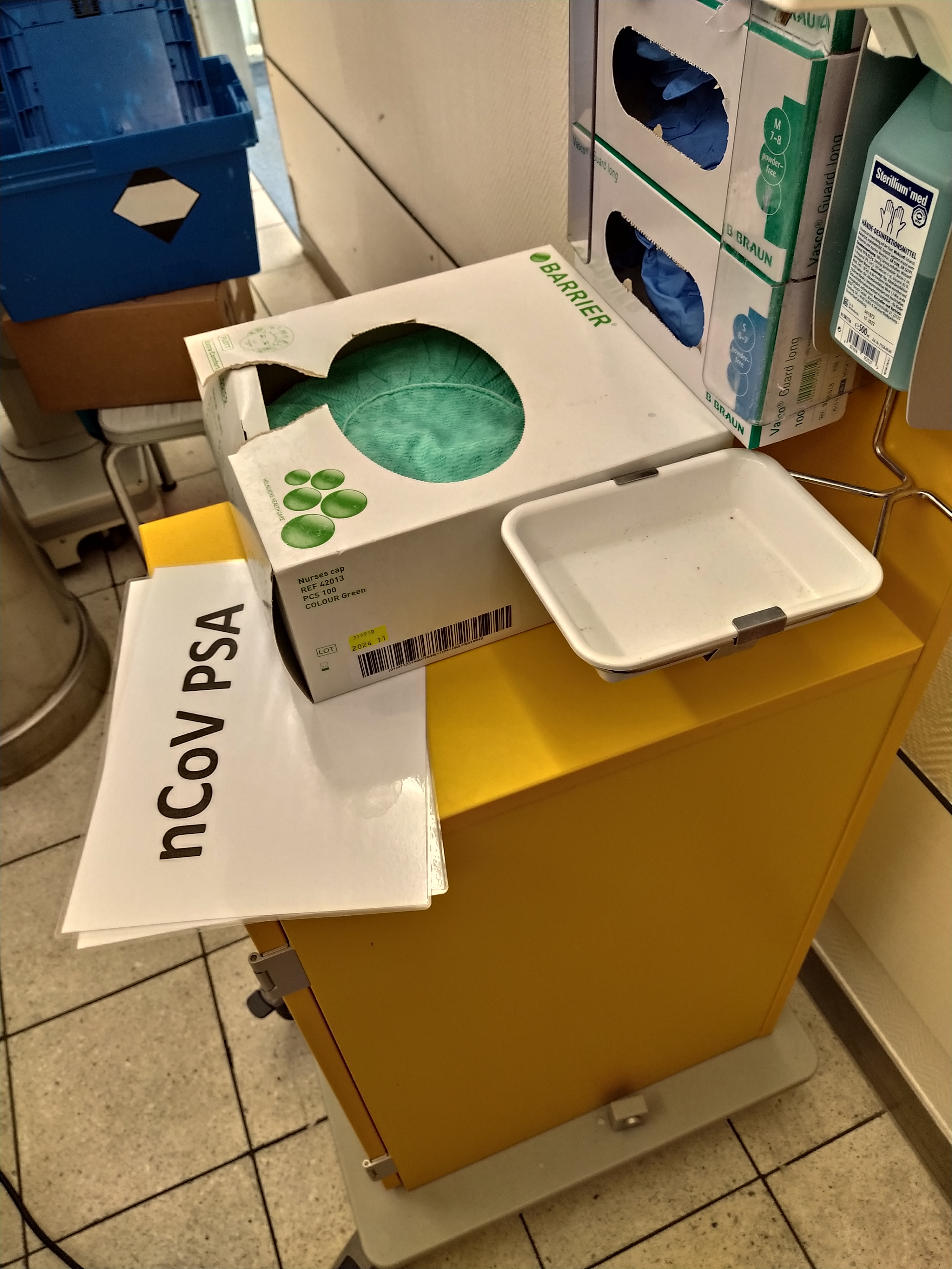 PSA= Personal protective equipment